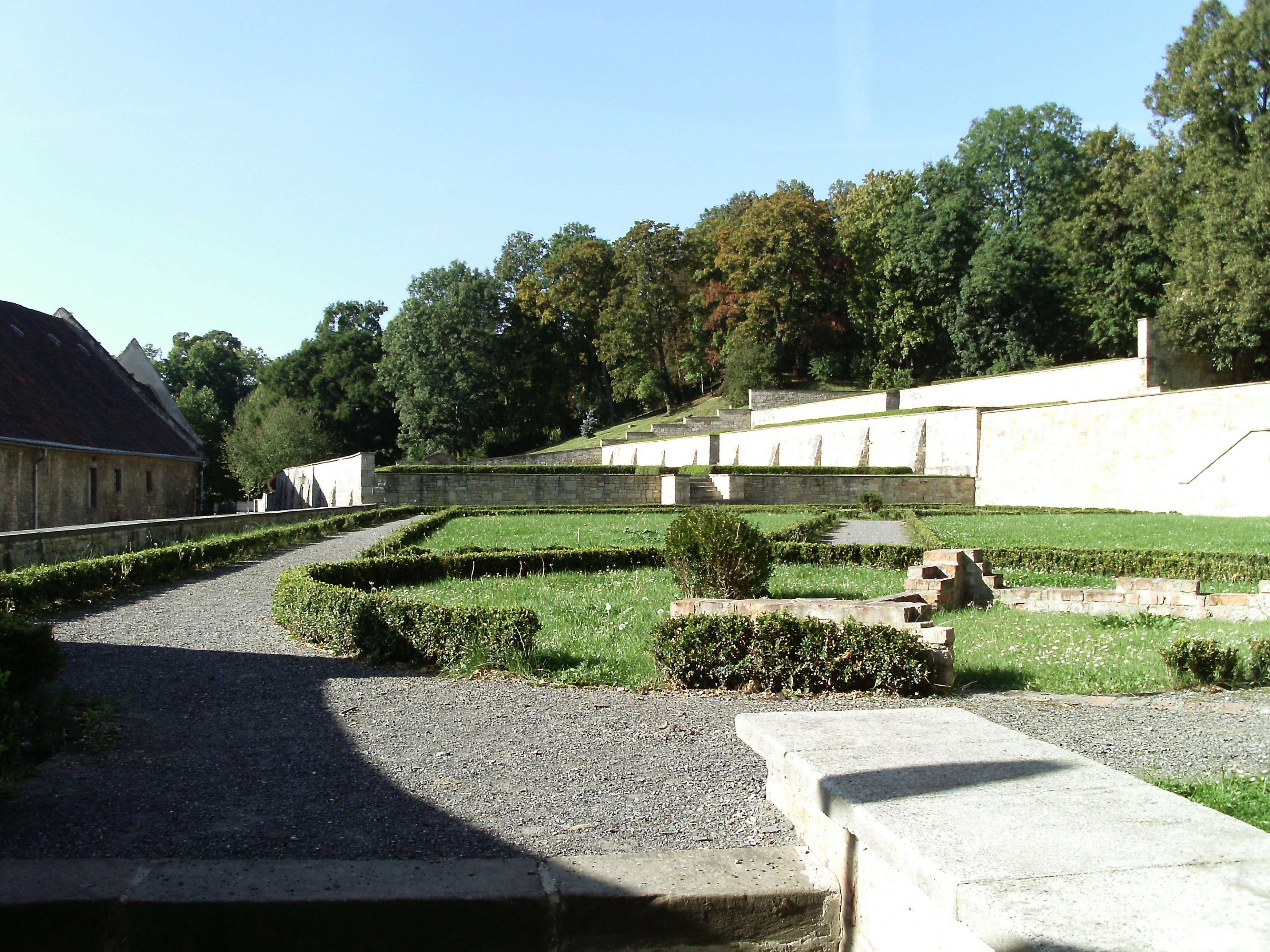 Baroque gardens of St. Ulrich Castle (Mücheln/Geiseltal, district of Saalekreis, Saxony-Anhalt)